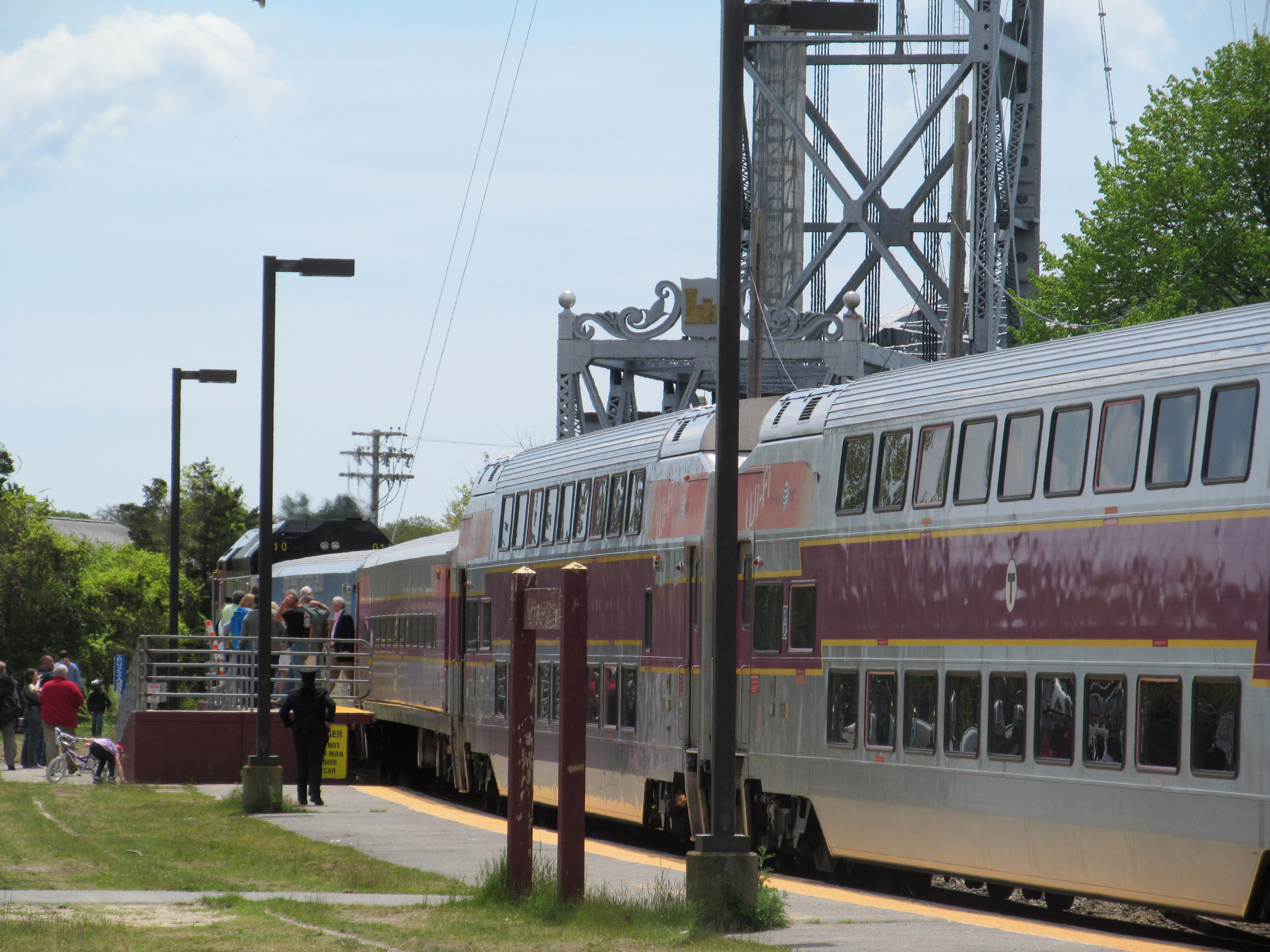 The trial run of the CapeFLYER service stopped at Buzzards Bay station outbound to Hyannis. Kawasaki BTC-4A cars 758 (right) and 760 are nearest to the camera.